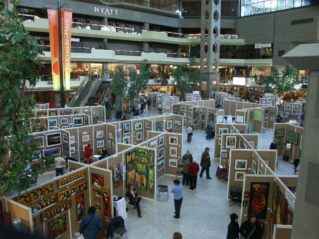 Complexe Desjardins, Montreal. "Grande-Place", where exhibitions, on culture or scientific themes, take place. Photo by: User:Gene.arboit